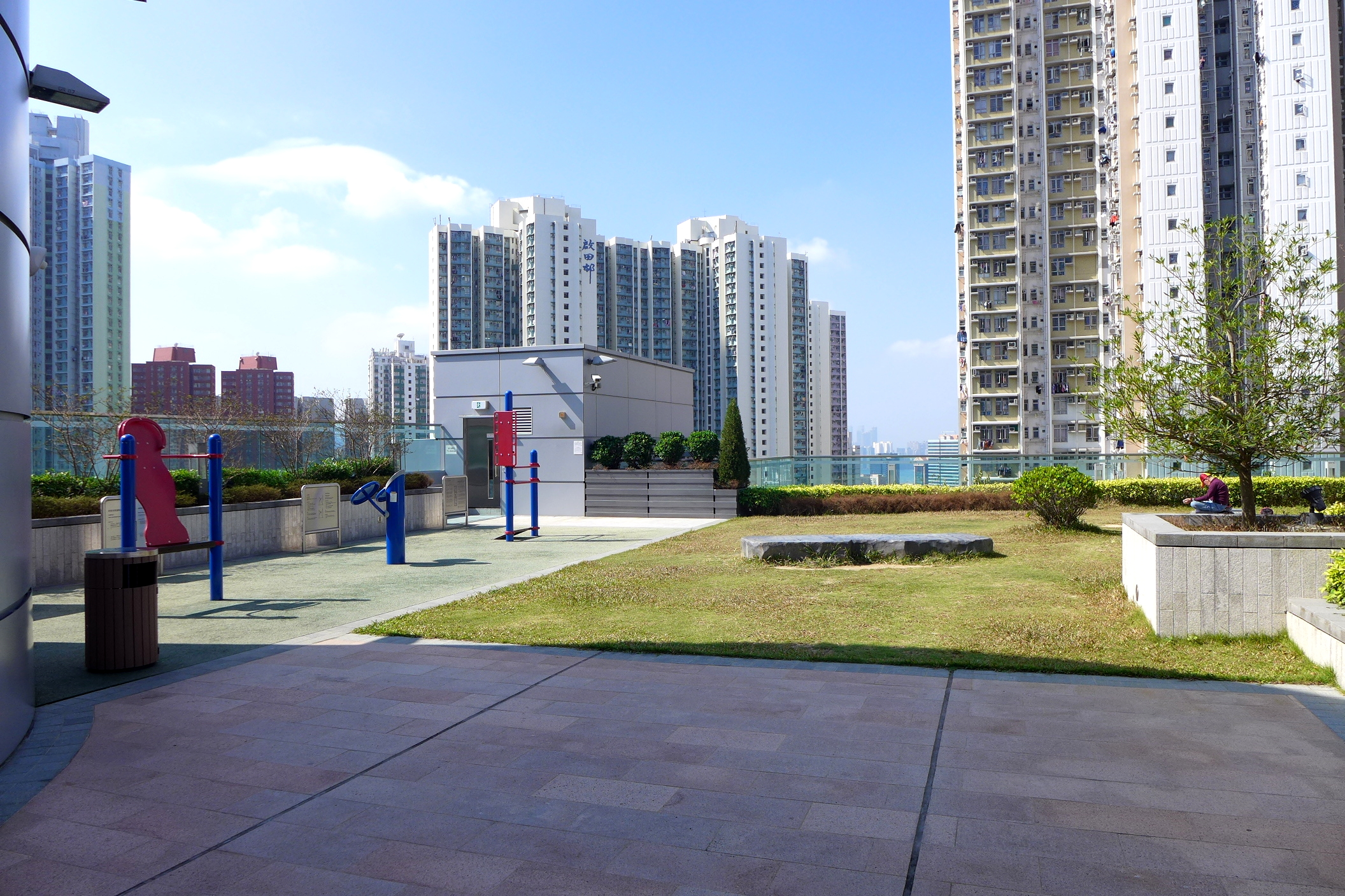 Lam Tin Complex